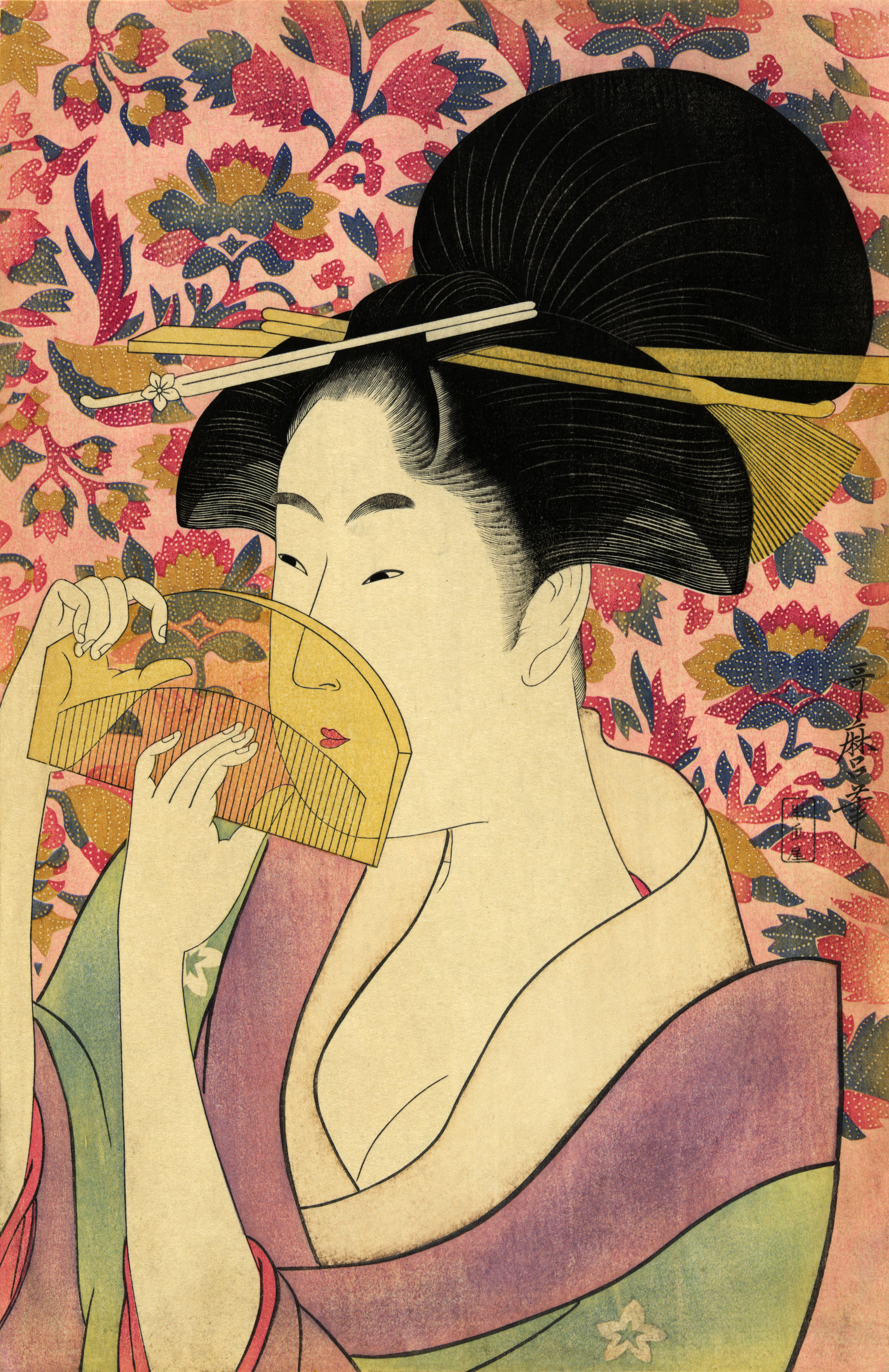 A woodcut entitled Kushi (translated: Comb).